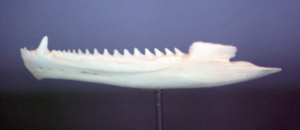 Tuatara jaw on display at Southland Museum and Art Gallery in Invercargill.